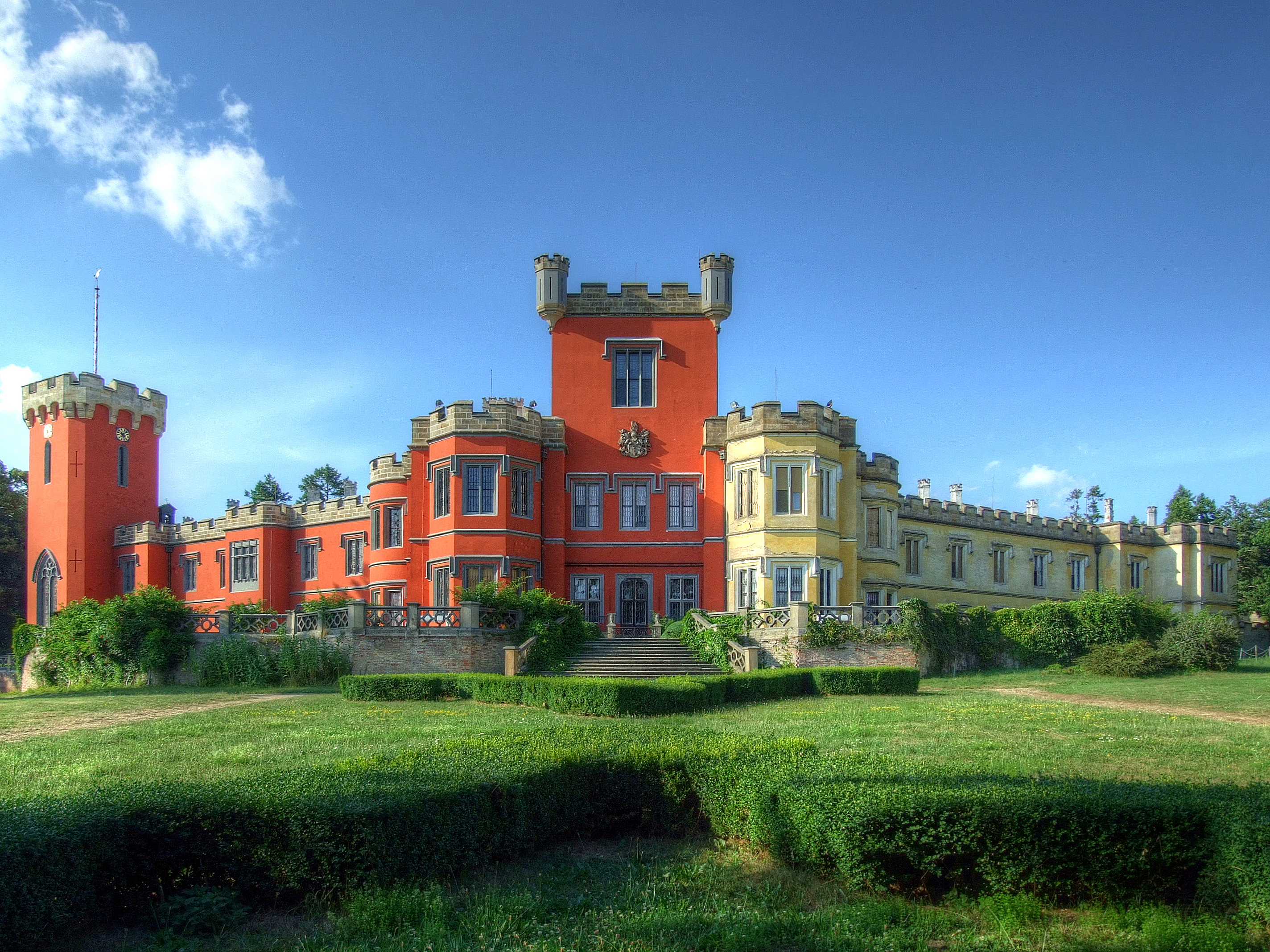 Hrádek u Nechanic is a 19th century Gothic architecture style Romantic château near the town of Hrádek in the Hradec Králové Region of the Czech Republic.